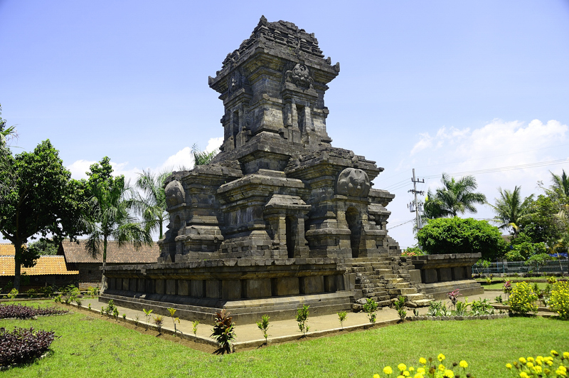 Candi Singosari, Singosari, Malang, Jawa Timur